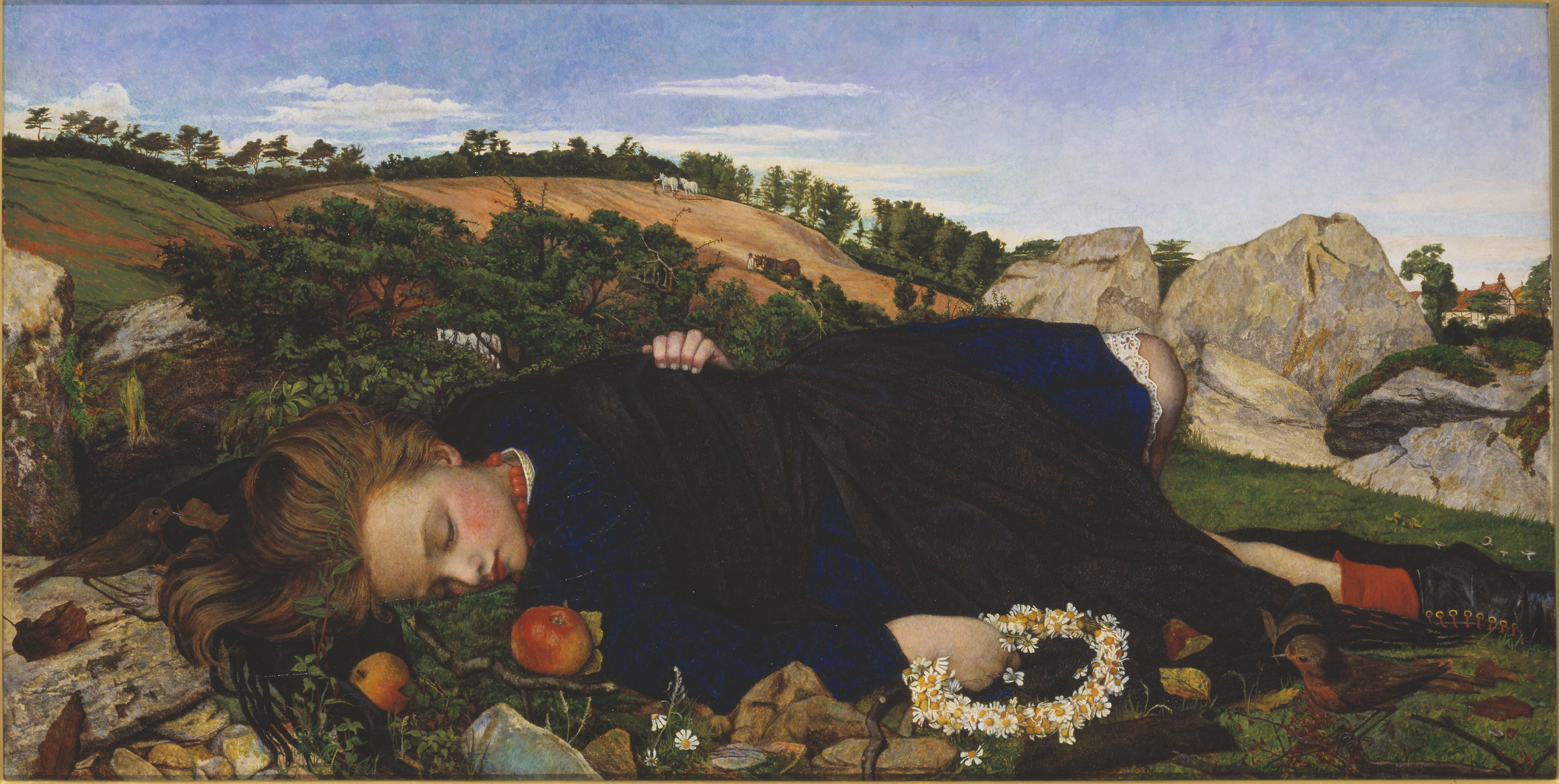 Robin of Modern Times Ann and Gordon Getty.